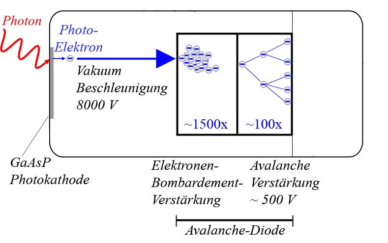 Scheme of a hybrid detector that combines properties of a photomultiplier tube (PMT) and an avalanche photo diode, German Version